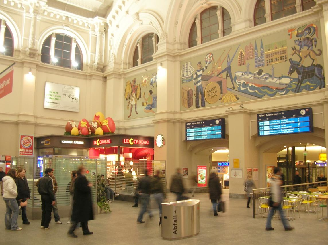 Station hall, Bremen Hbf.